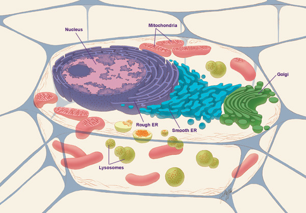 animal cell from NIH